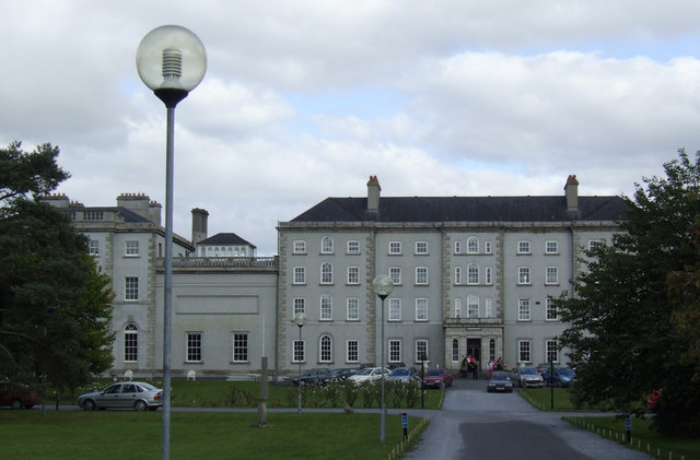 St. Patrick's College St. Patrick’s College, opened in 1793, was the first post-penal Catholic seminary constructed in Ireland. Like many other institutions of the eighteenth century, it is built in the form of a large country house. The lodge and gates are particularly attractive. It claims to be the seminary in longest continuous use worldwide.